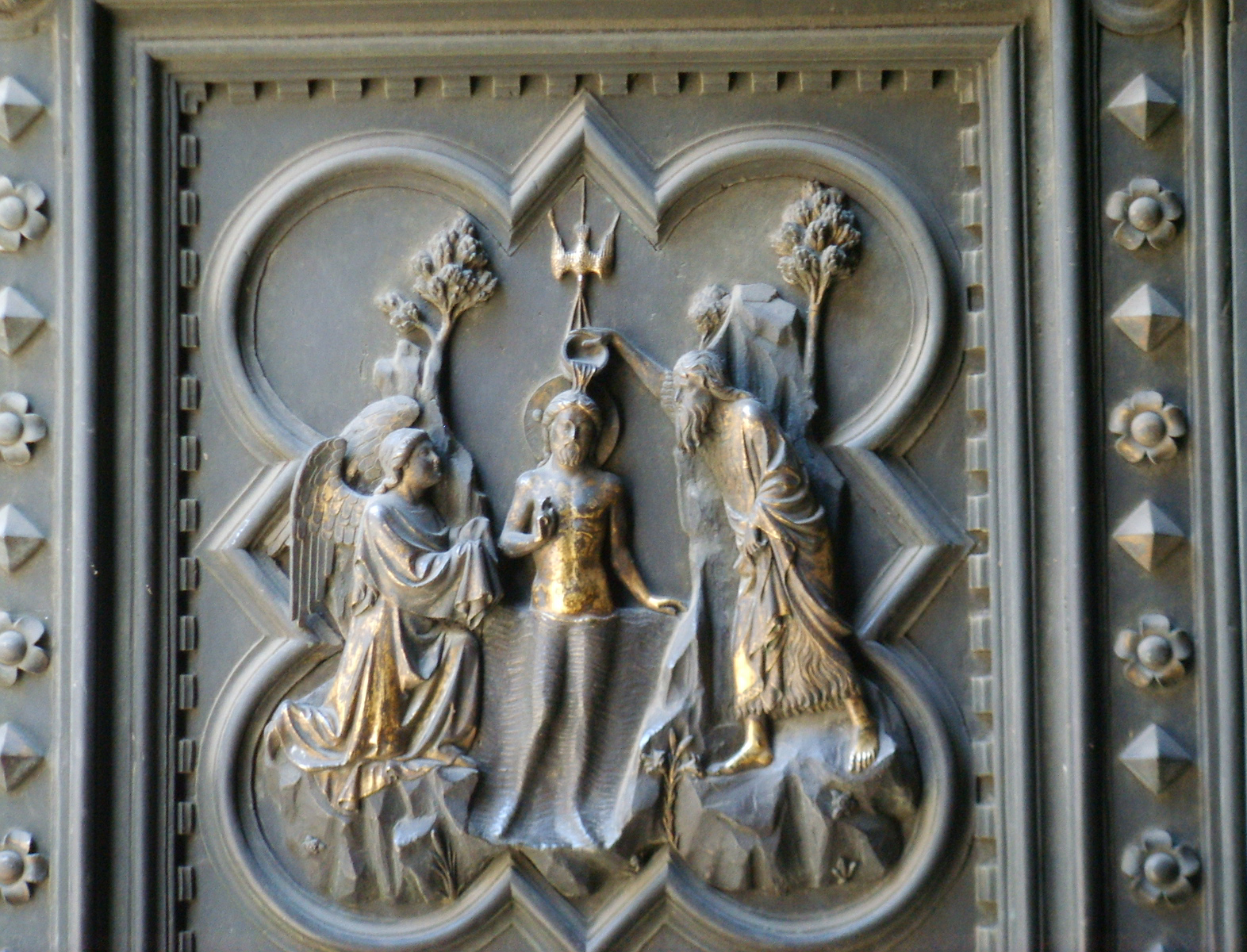 south door of the Florence Baptistery by Andrea Pisano